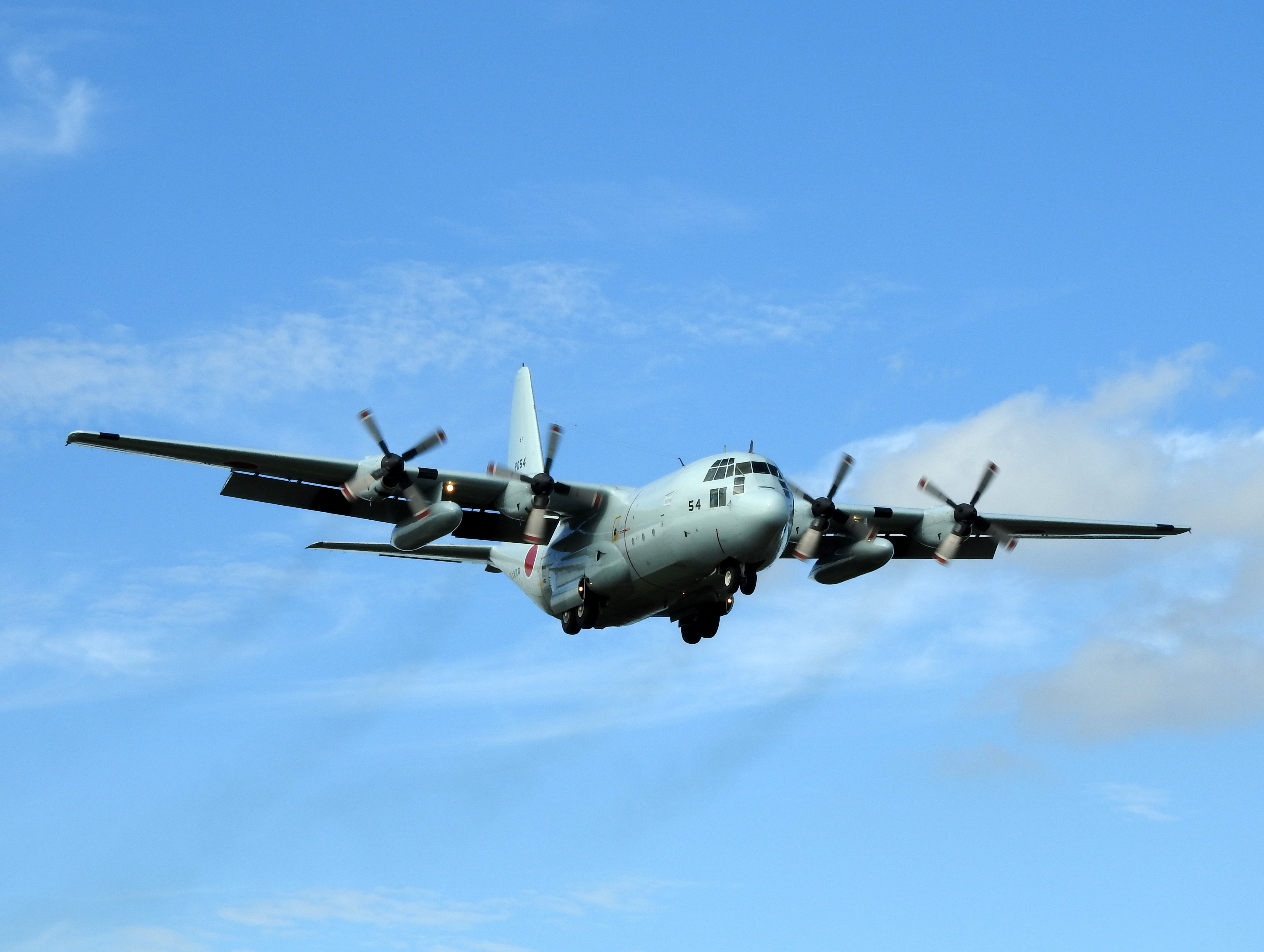 C-130R of the Japan Maritime Self Defense Force landing at Naval Air Facility Atsugi. Formerly operated as a KC-130R tanker by the US Marine Corps, it and four other aircraft of the same model were renovated and sold to Japan. They replaced NAMC YS-11 aircraft of Air Transport Squadron 61. From 2014 based at NAF Atsugi in Kanagawa Prefecture near Tokyo.